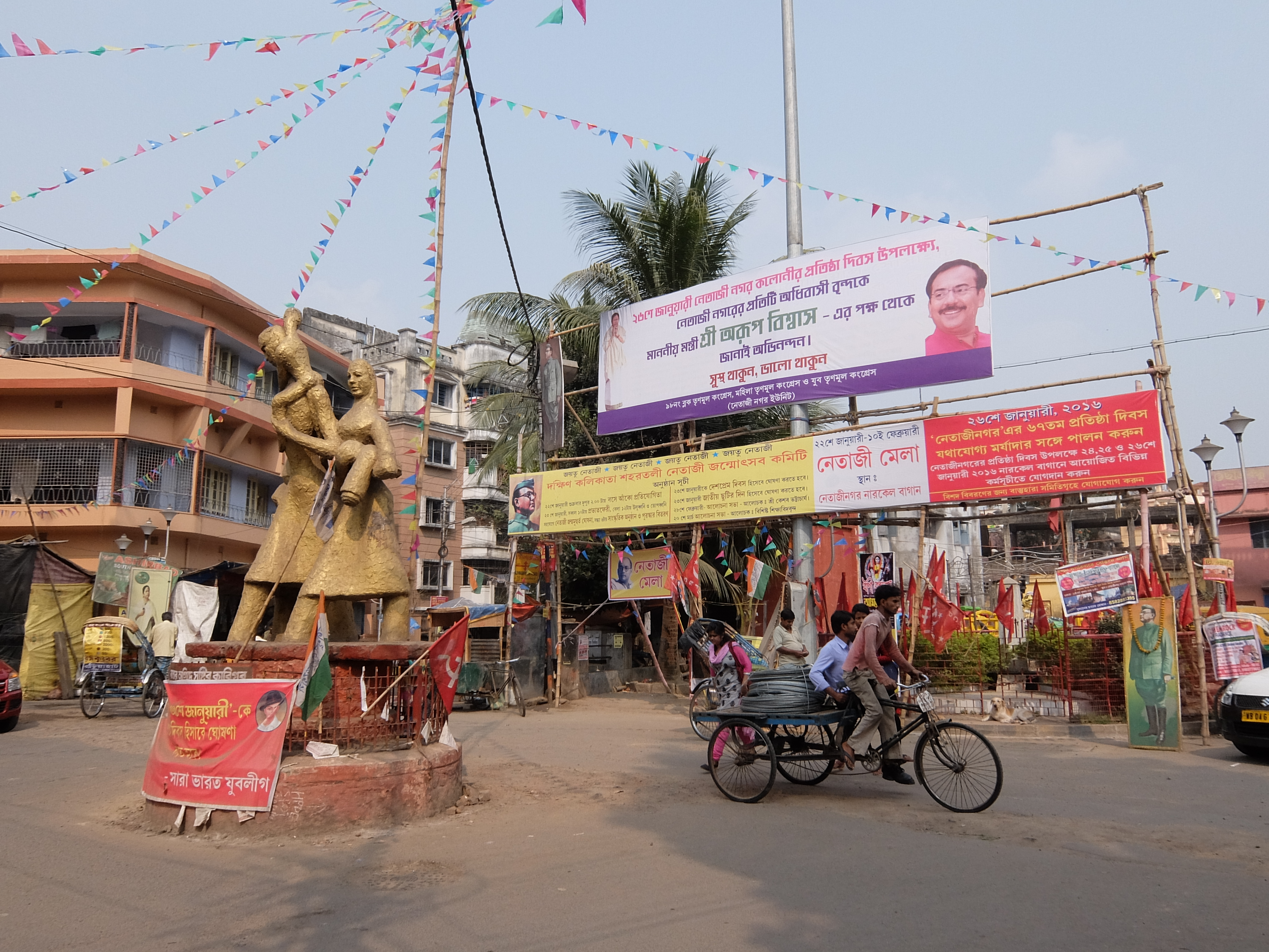 The central crossroads of Netaji Nagar, established as a refugee colony in the late 1940s, is decorated ahead of the celebration of its founding anniversary. A statue of a refugee family marks the crossroads, left of centre.